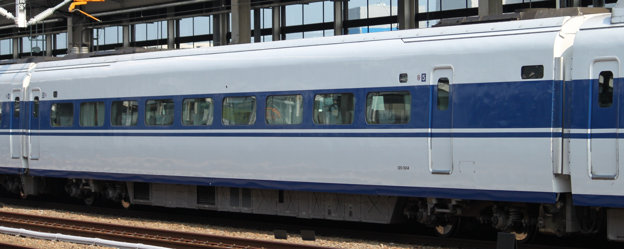 Shinkansen series 100(125-3014) in Himeji Station